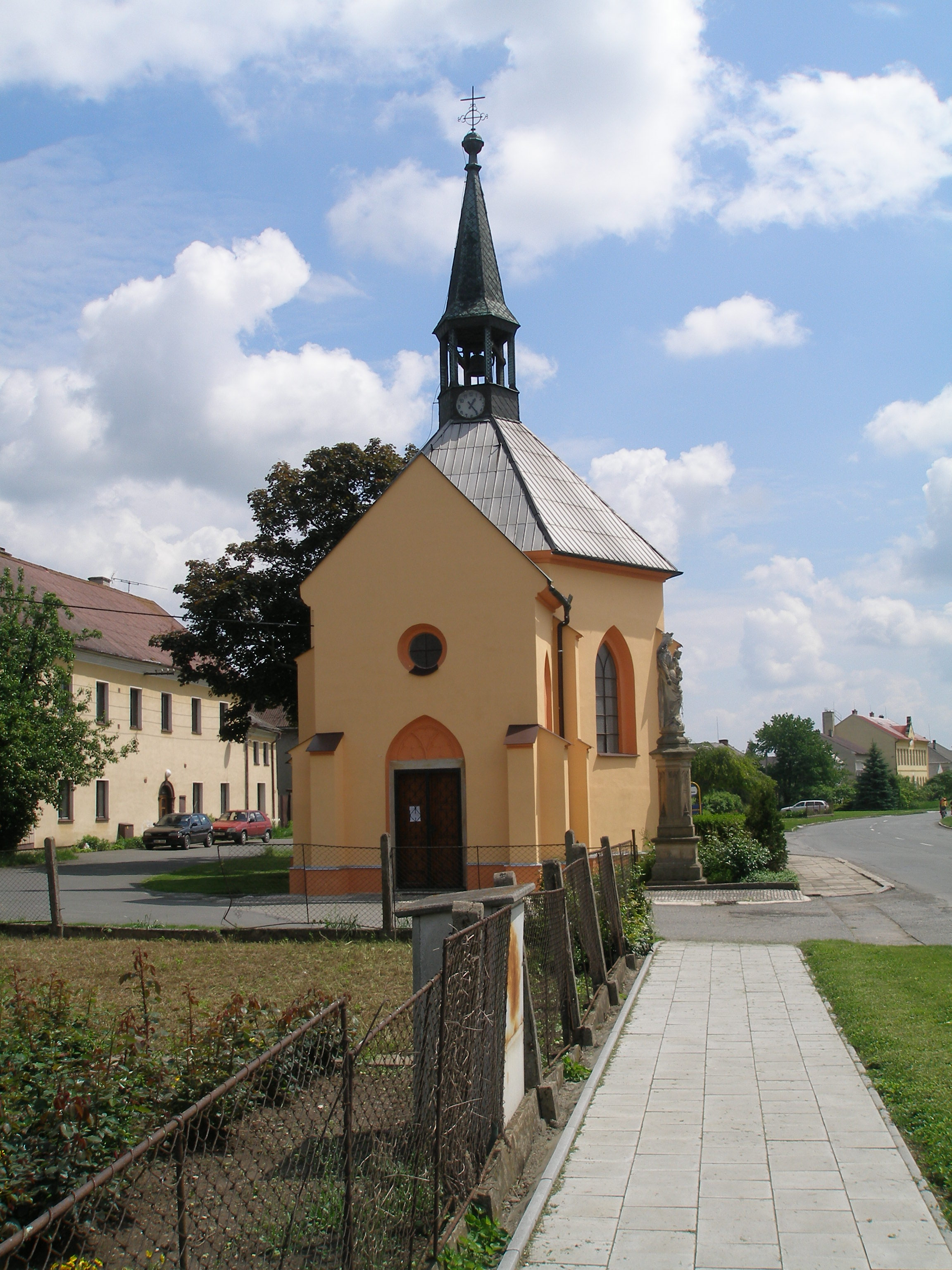 Žerotín (Olomouc district) - the Western view of the chapel